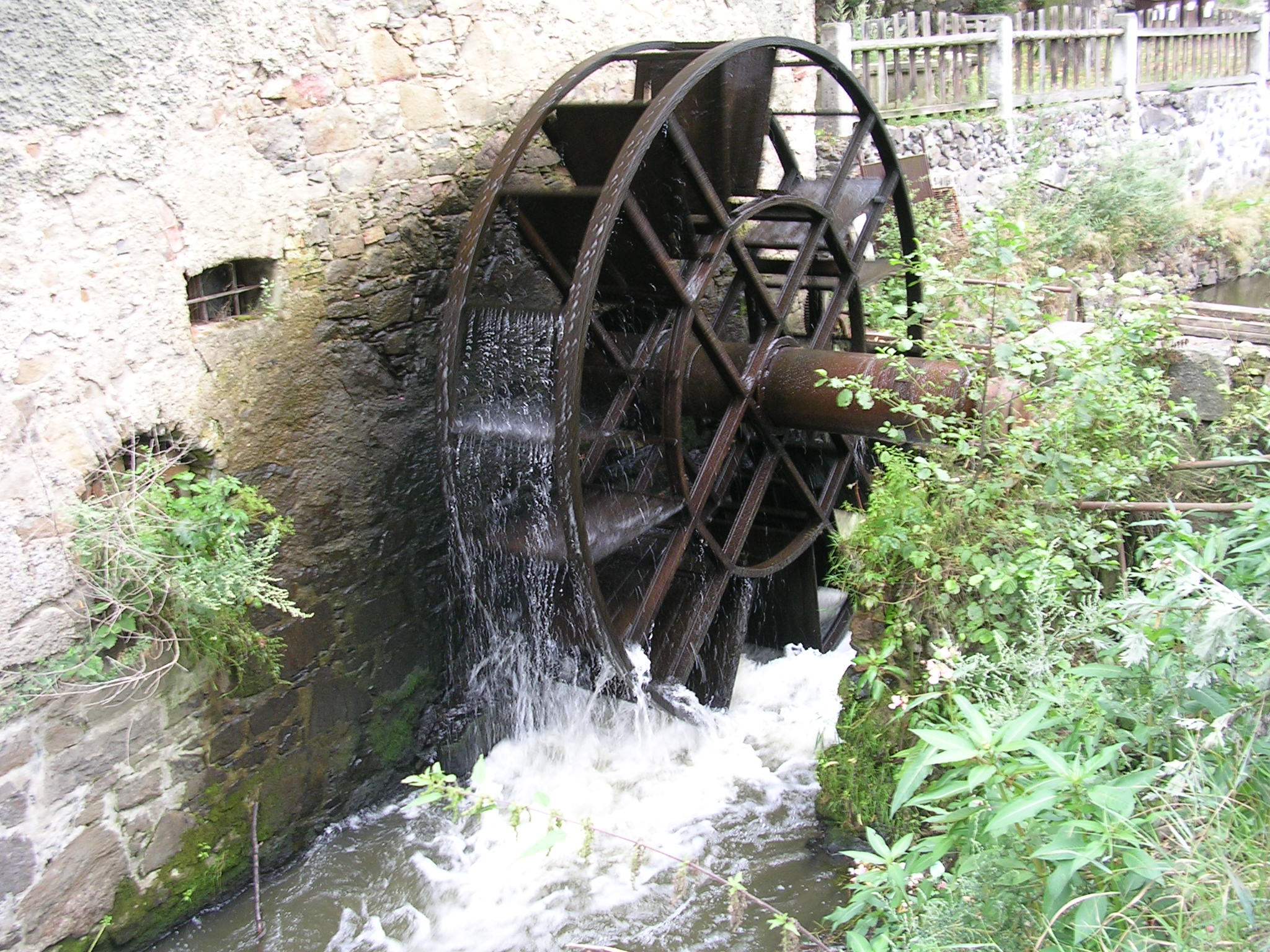 Jakubov Mill, municipality of Vojkovice, Karlovy Vary District, Karlovy Vary Region. A water wheel.